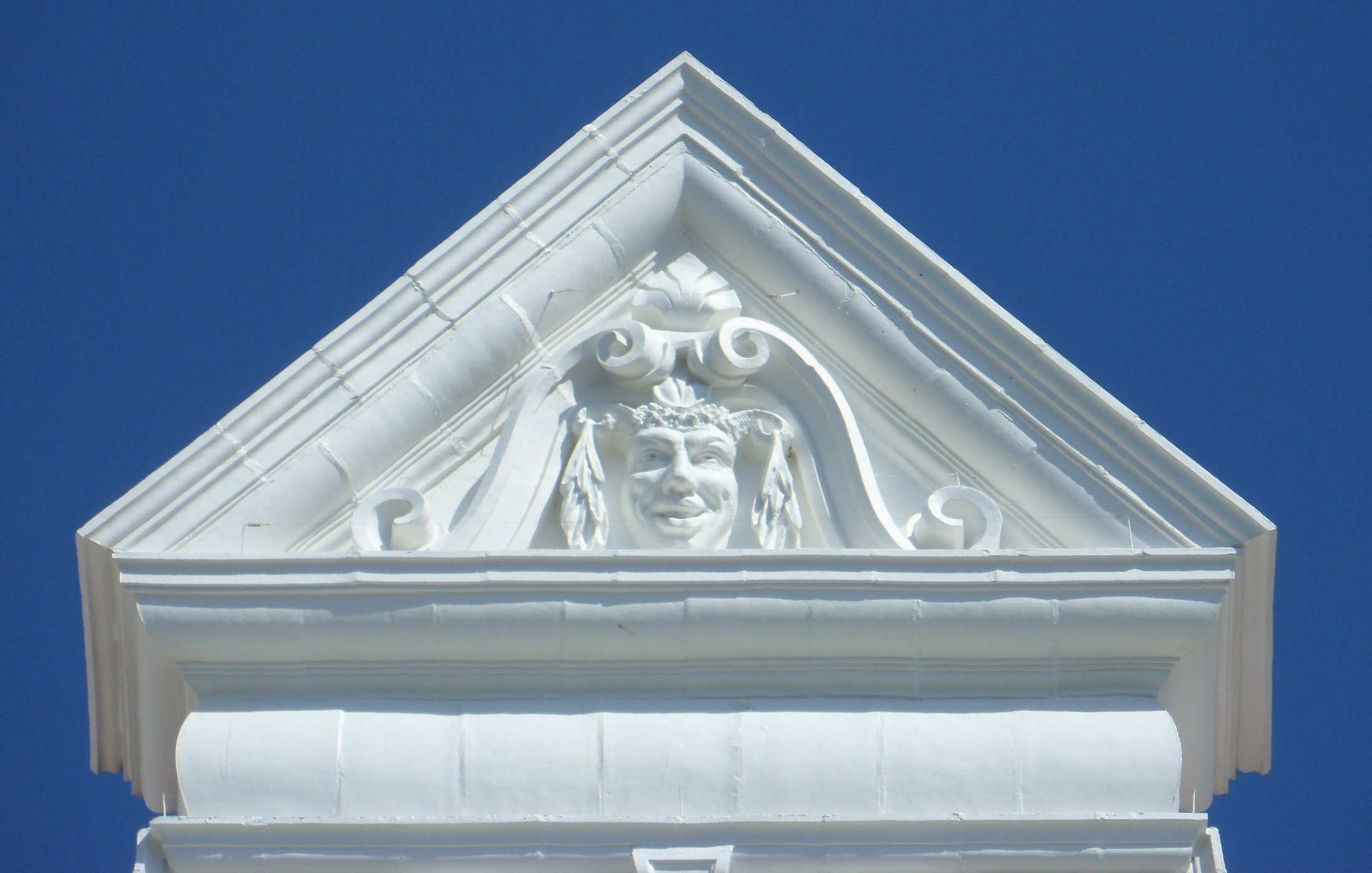 A highly decorative moulded stuccoed gable on the south face of the former Belgrave Hotel, corner of West Street and Kings Road, Brighton, City of Brighton and Hove, England. This building is now styled Umi Hotel Brighton.